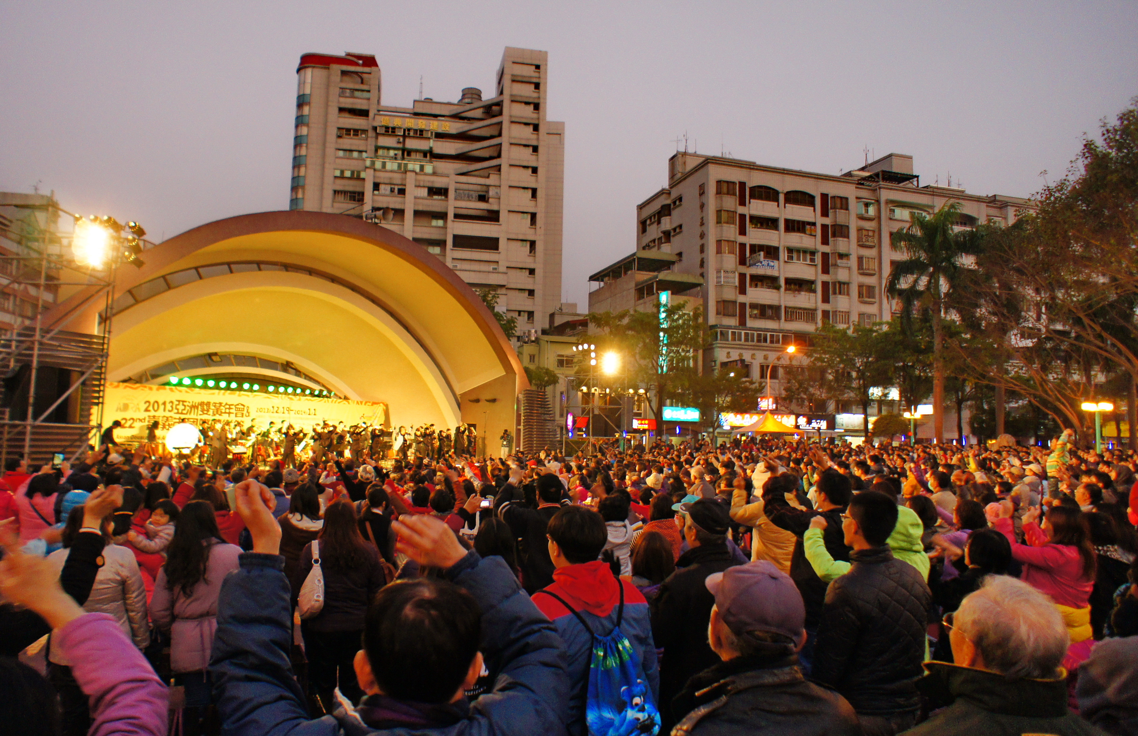 22nd Chiayi City International Band Festival, outdoor concert at the Zhongzheng Park, Chiayi City, Taiwan.